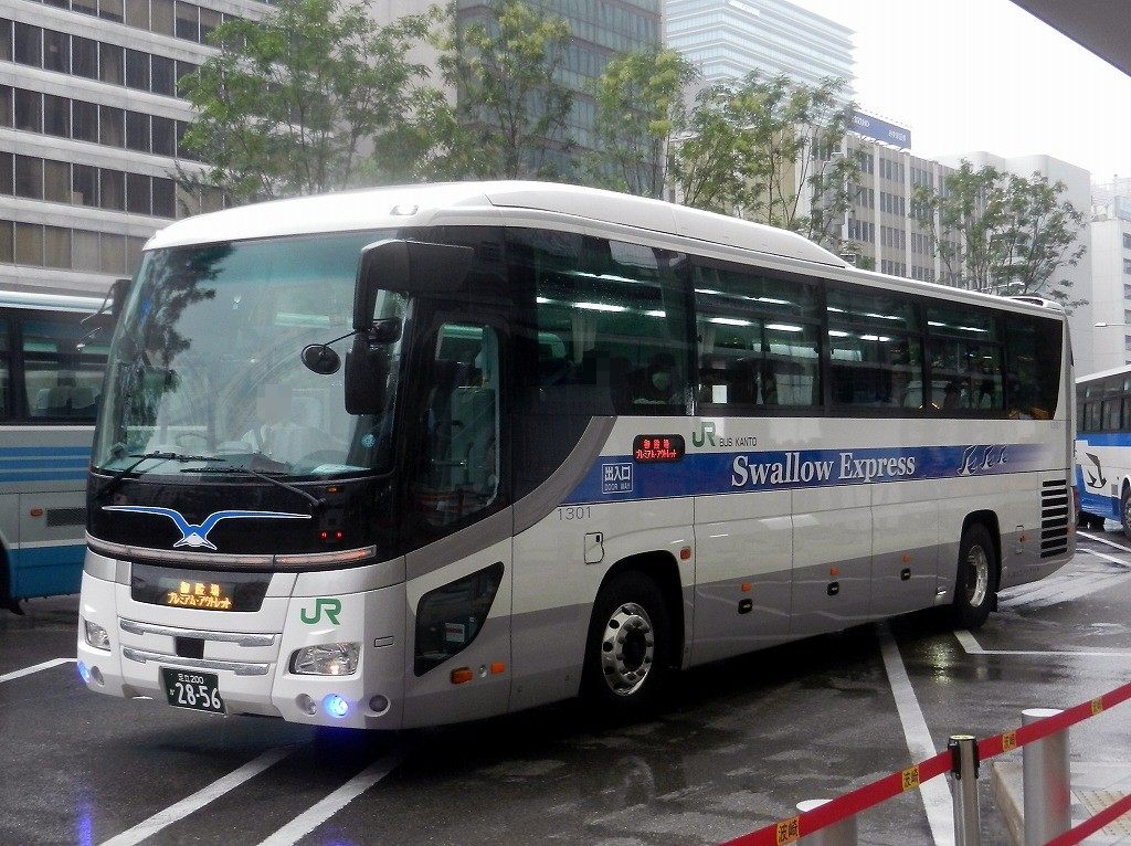 JR bus Tech Hino S'elega HD (QRG-RU1ASCA) highwaybus "Tokyo - Gotemba premium outlets"